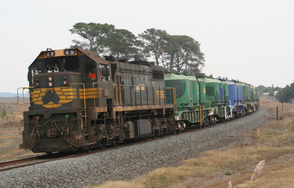 Pacific National operated train consisting of Victorian X class locomotive X31 and cement hopper wagons, at Grovedale, Victoria, Australia